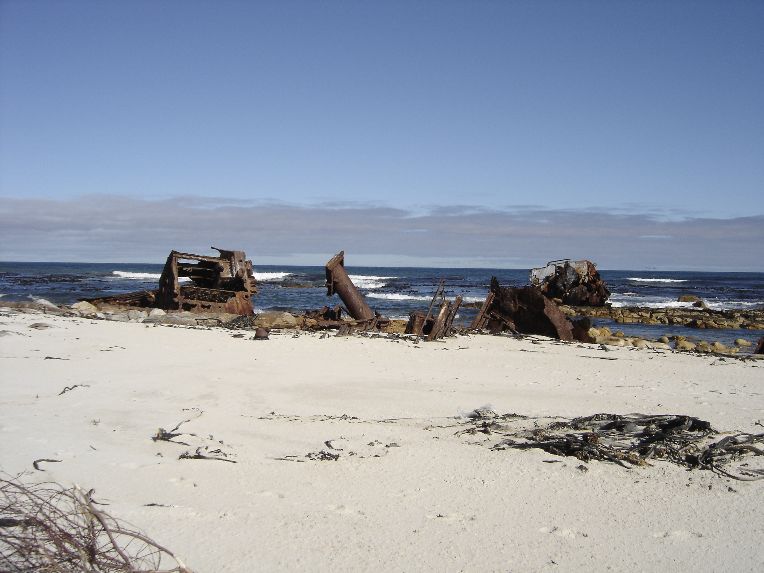 Thomas T Tucker shipwreck, ran aground 1942, Olifantsbos, Cape Point Nature Reserve, South Africa